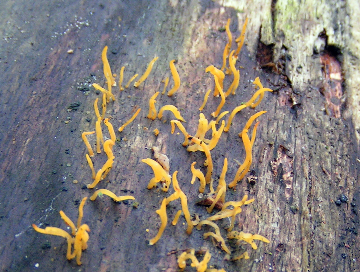 Calocera cornea Geel hoorntje 29 oktober 2004